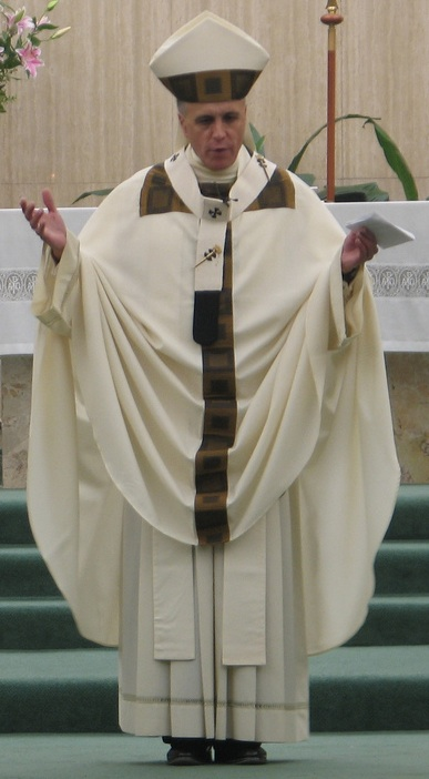 Cropped version of photo by Nieve44/La Luz (